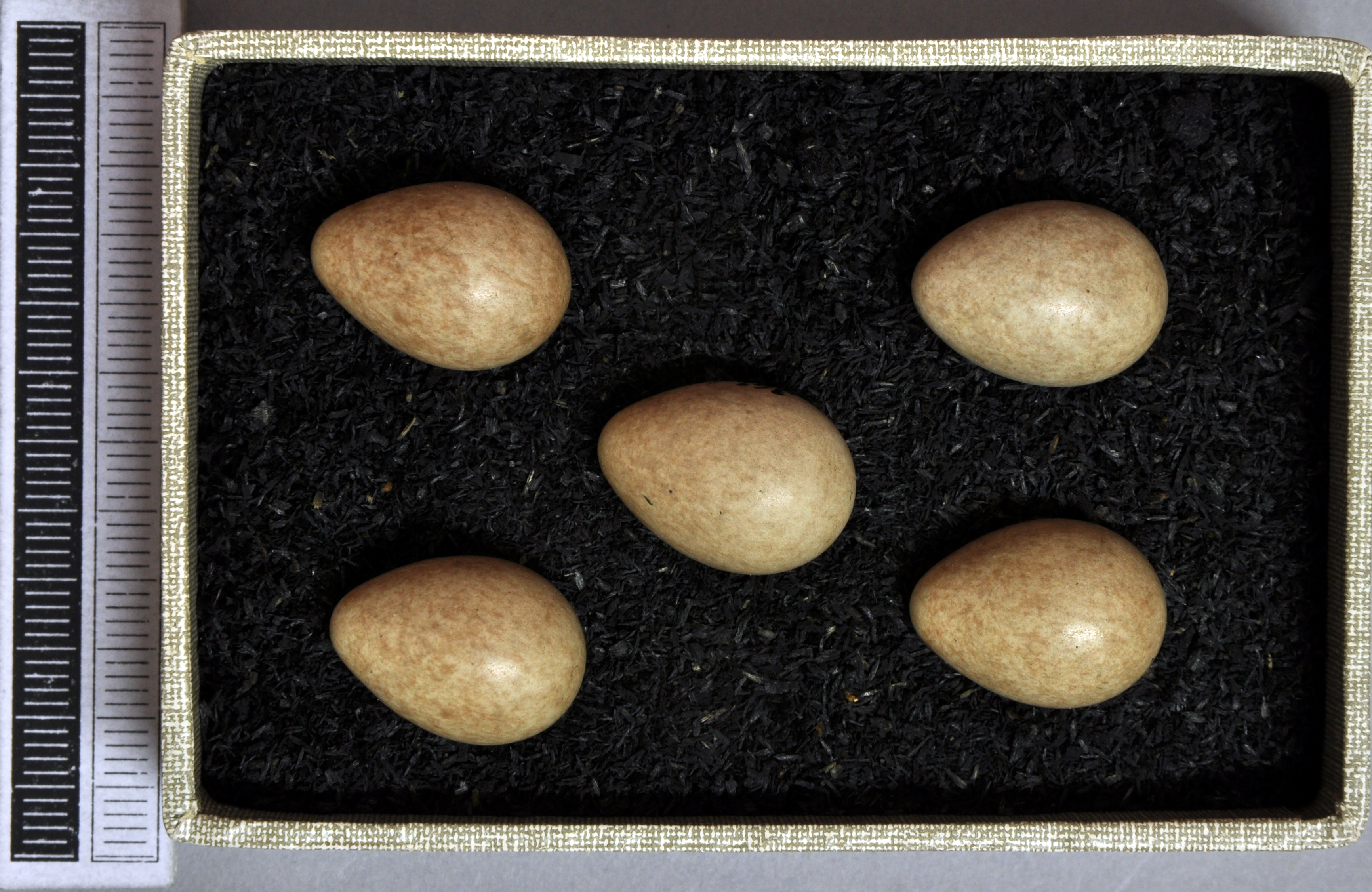 Western yellow wagtail Motacilla flava , egg, Coll. Museum Wiesbaden